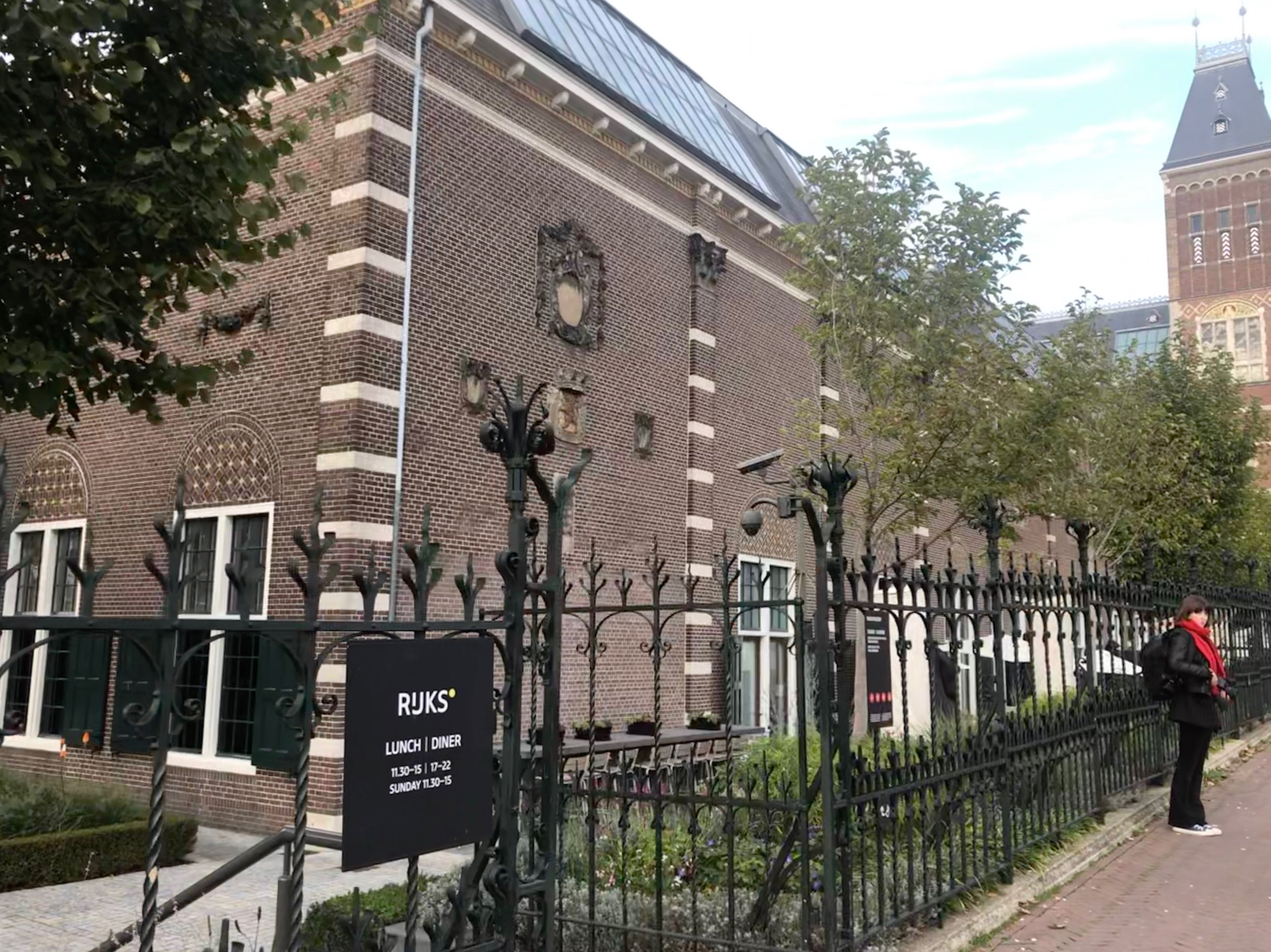 restaurant Rijks